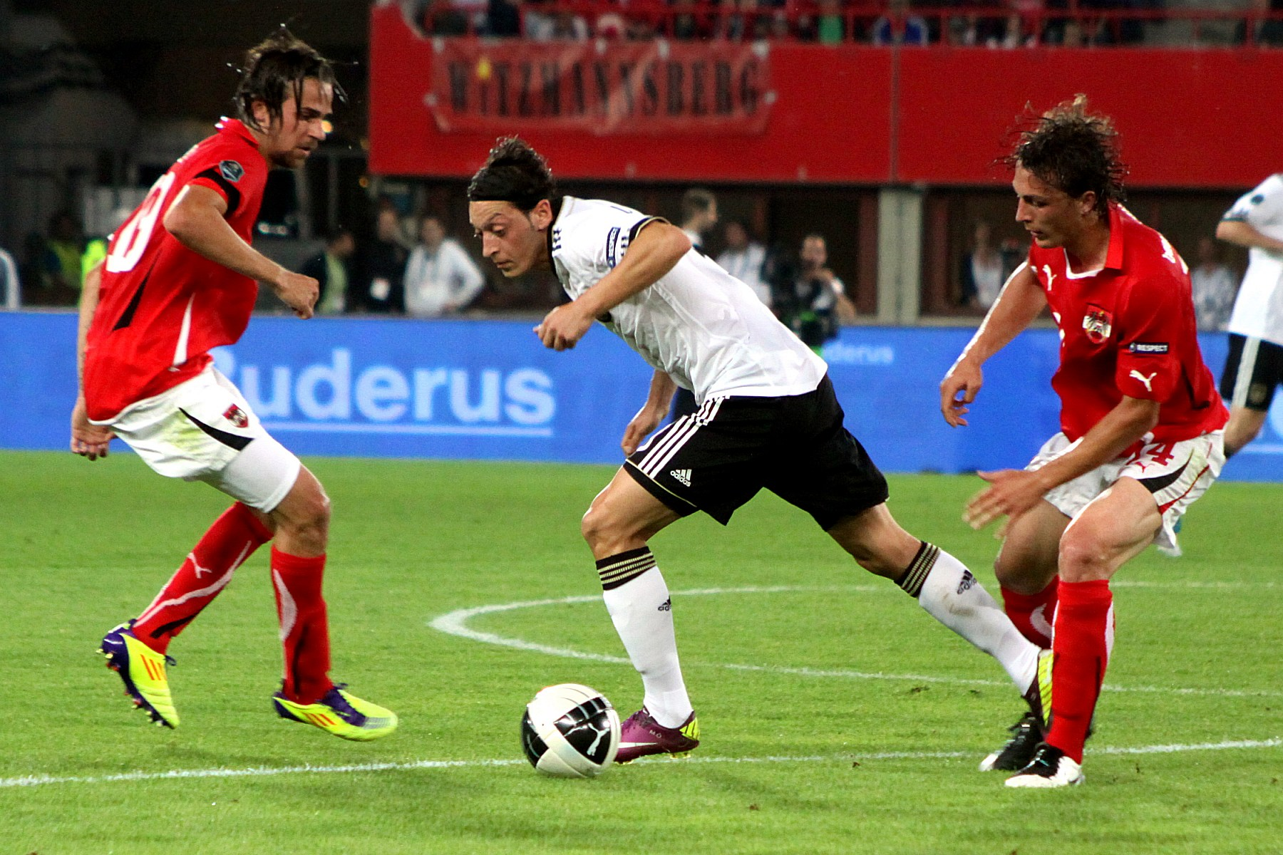 Qualifying for the UEFA Euro 2012 Austria (red shirt) vs. Germany (white Shirt) 1:2 (0:1) at 2011-06-03 in Vienna (Ernst-Happel-Stadion) — The photo shows (fron left to right): Martin Harnik (VfB Stuttgart), Mesut Özil (Real Madrid), Julian Baumgartlinger (FK Austria Wien).